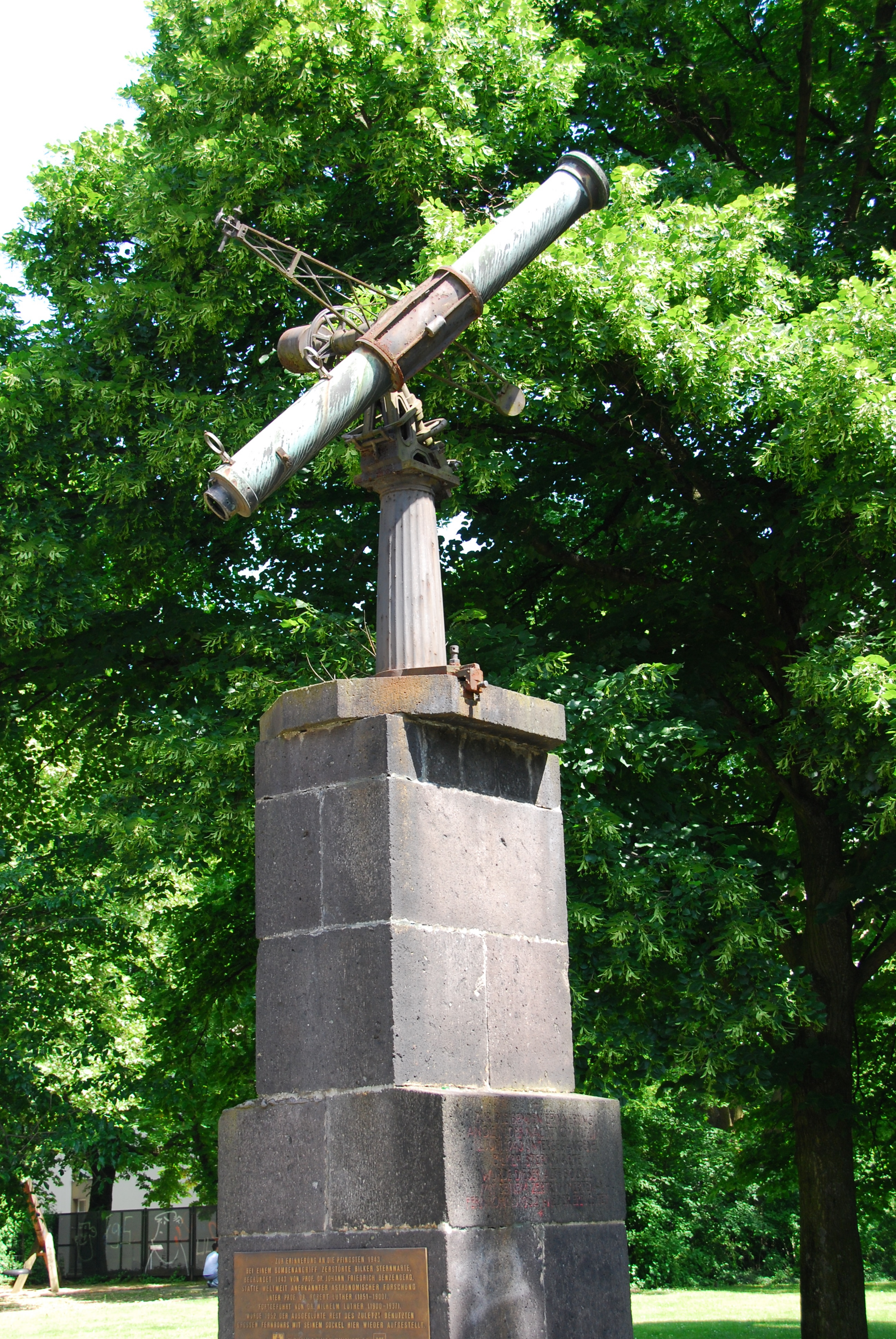 front view of "Sternwarte Bilk"